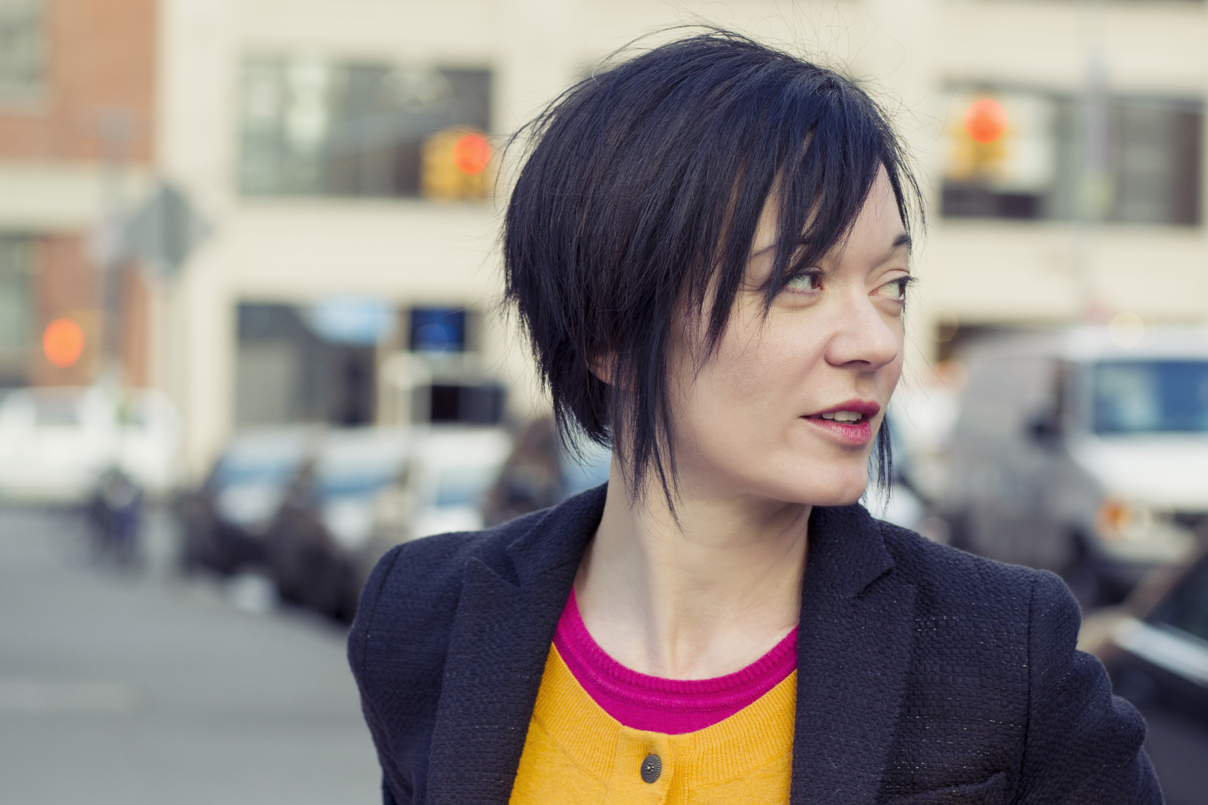 Photograph of Sue Gardner, street portrait (alt), shot December 2012. Photographs by Victoria Will ( for the Wikimedia Foundation.